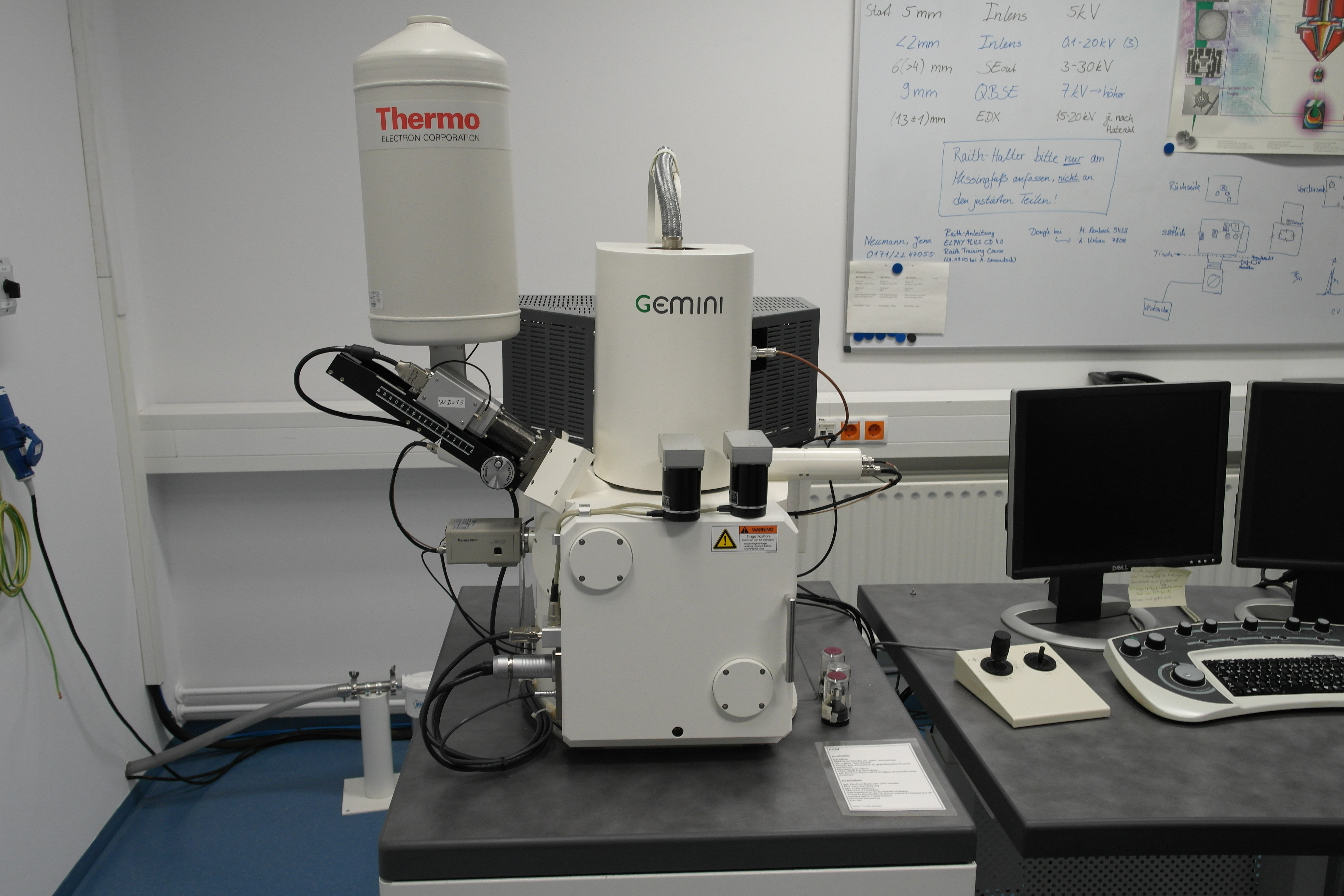 Scanning electron microscope at the University of Göttingen